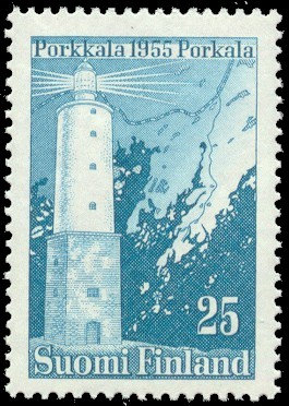 Postage stamp depicting the Rönnskär lighthouse on the Porkkala peninsula, Finland